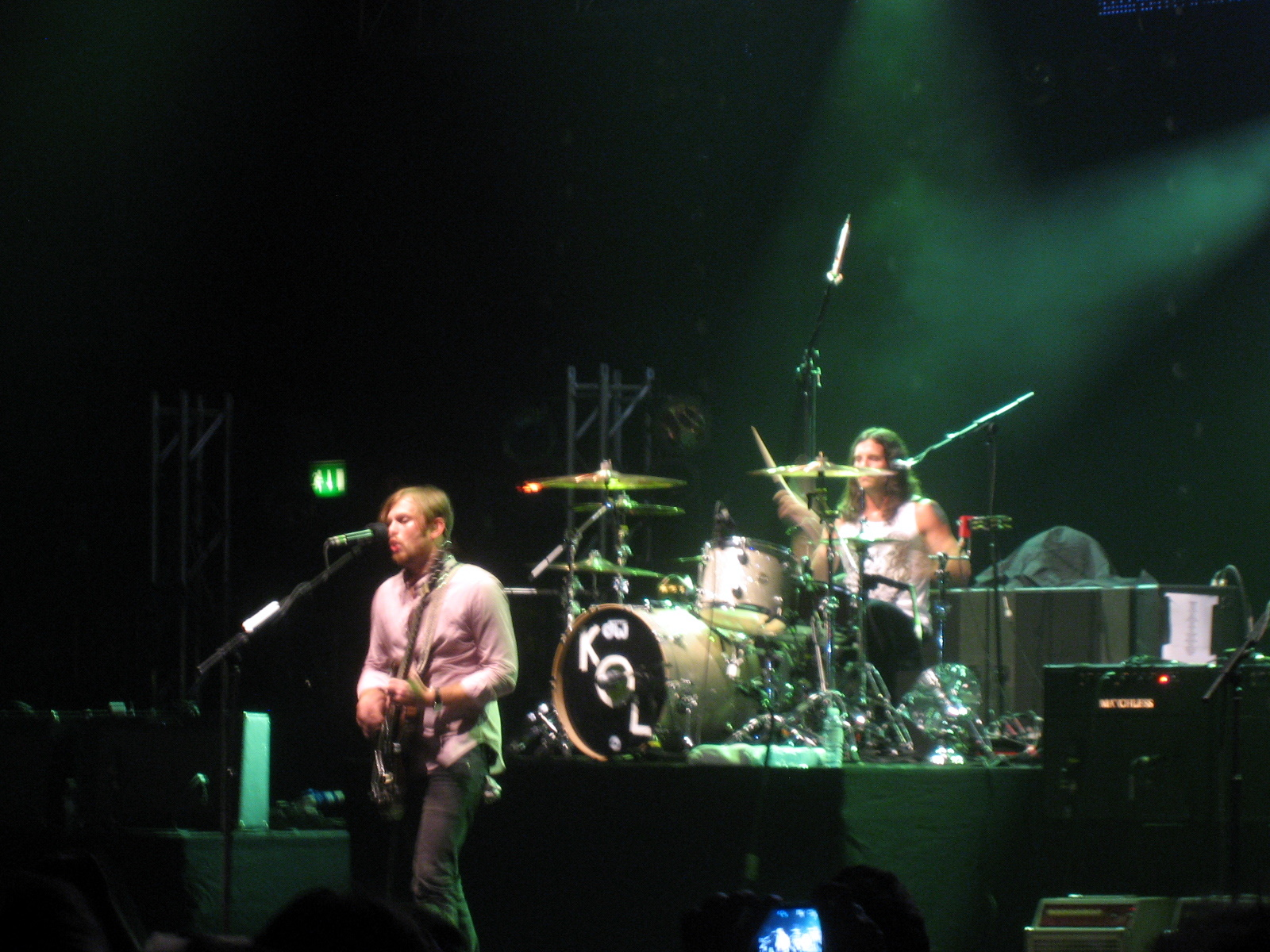 Kings Of Leon @ Brixton Academy